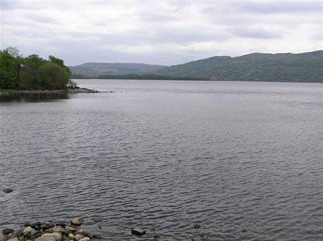 Lough Melvin Pictured to the south of the town